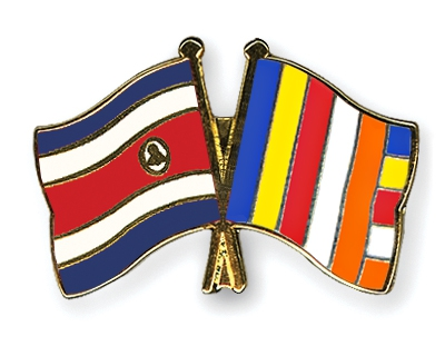 iamge using two public dominion flags: the flag of Costa Rica and flag of Buddhism together